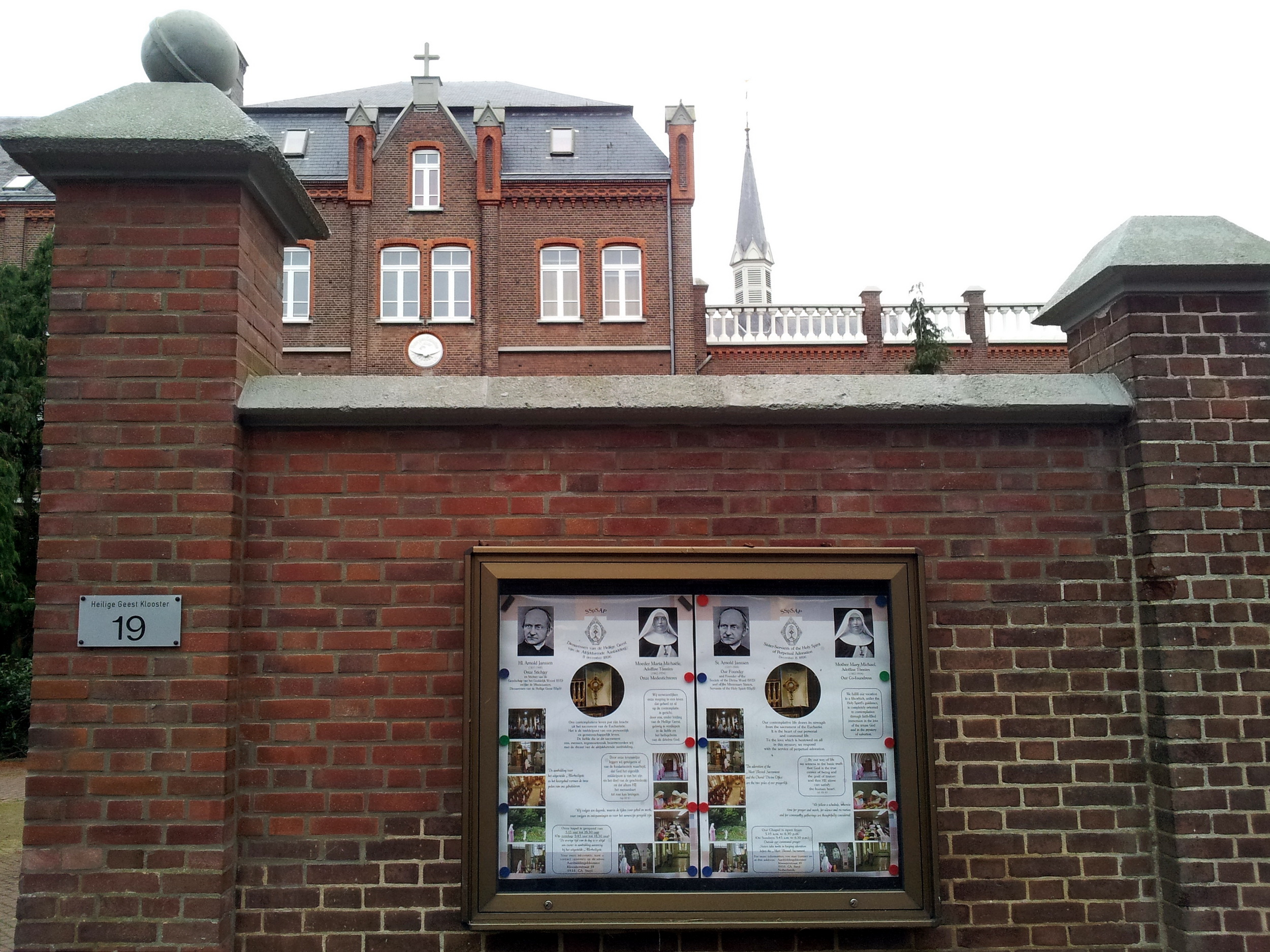 Main entrance at Kloosterstraat of the Monastery of the Holy Ghost, the mother house of the RC Congregation of the Servants of the Holy Spirit of Perpetual Adoration (Servae Spiritus Sancti de Adoratione Perpetua; SSpSAP).